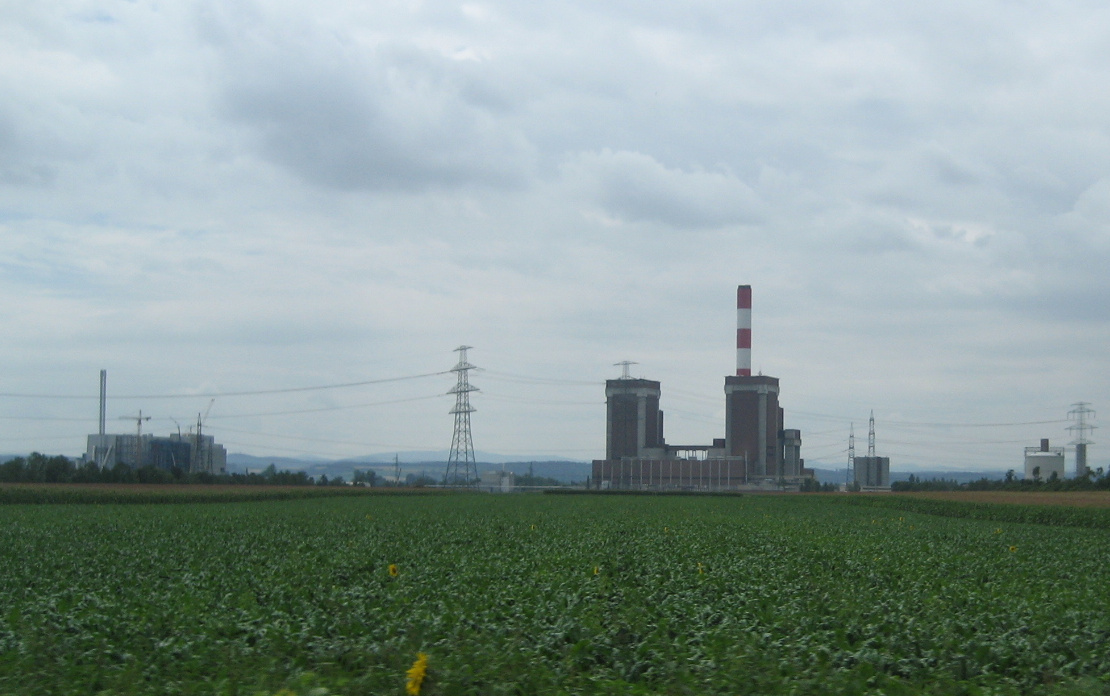 Coal power plant in Dürnrohr, Lower Austria